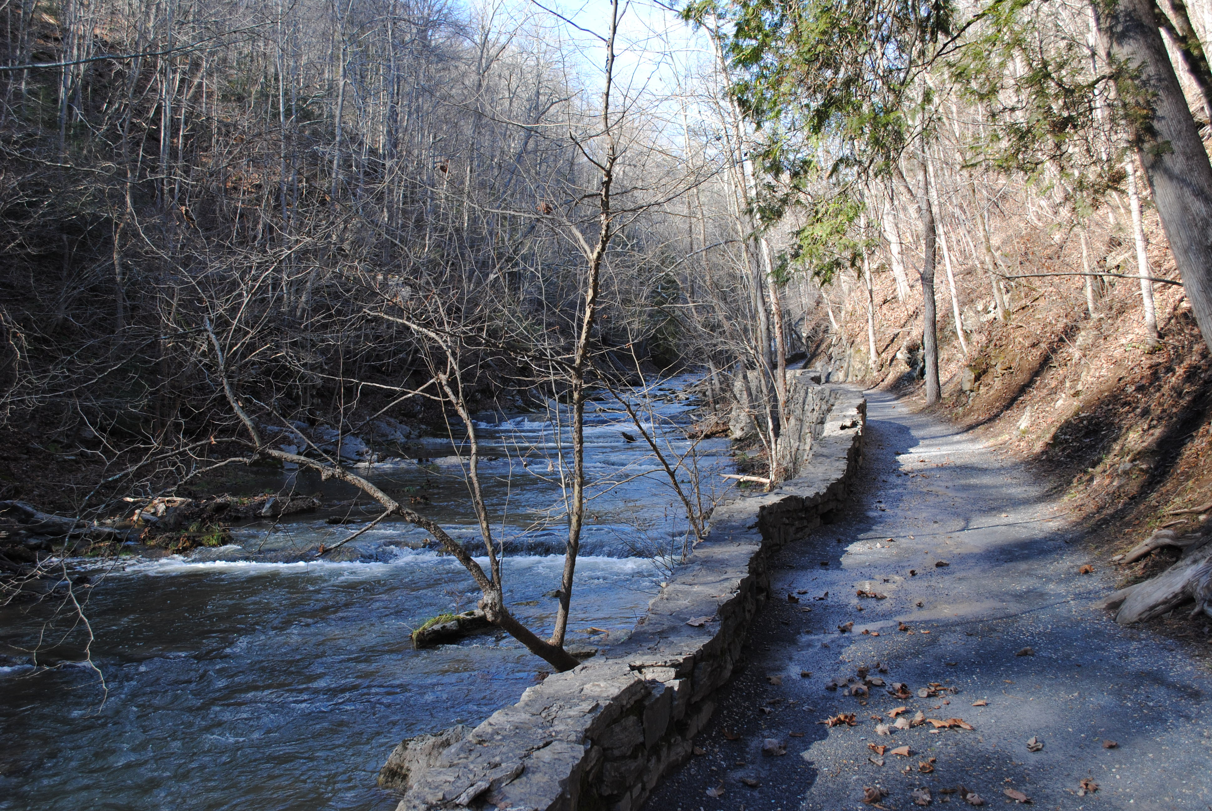 NB, trail Learn more about Virginia State Parks here